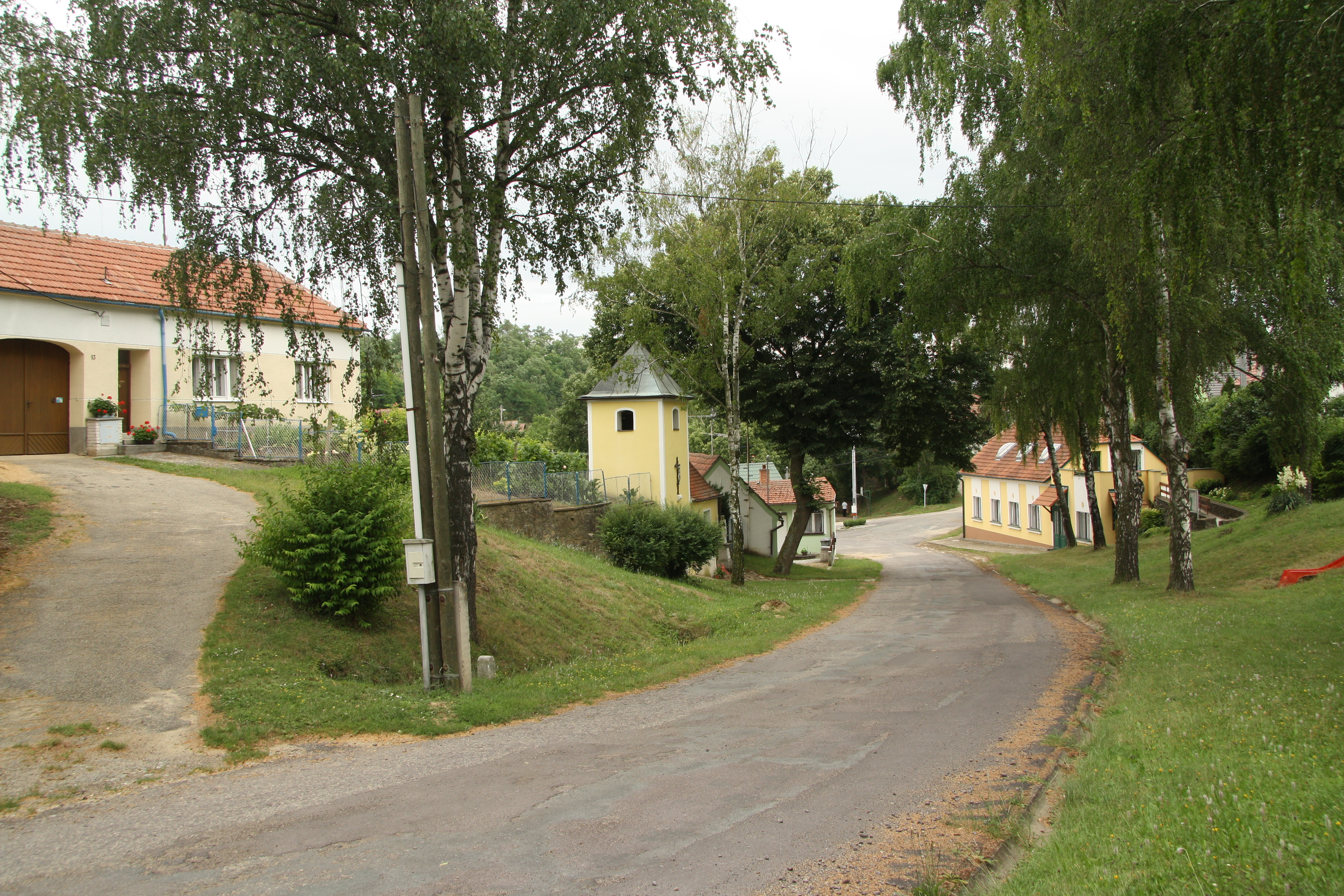 Center of Němčičky, Znojmo District.